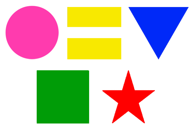 Zeo Symbols.